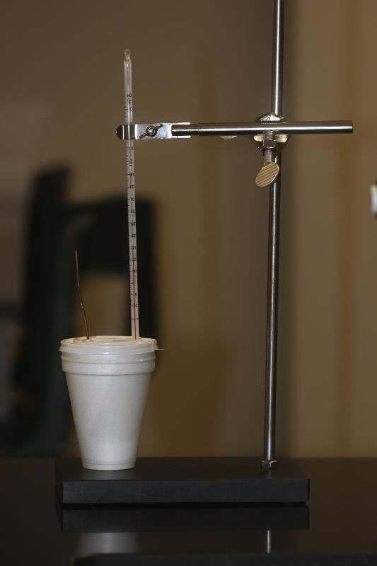 Photo of coffee cup calorimeter set up This product was funded by a grant awarded by the U.S. Department of Labor's Employment and Training Administration. The product was created by the grantee and does not necessarily reflect the official position of the U.S. Department of Labor. The Department of Labor makes no guarantees, warranties, or assurances of any kind, express or implied, with respect to such information, including any information on linked sites and including, but not limited to, accuracy of the information or its completeness, timeliness, usefulness, adequacy, continued availability, or ownership.